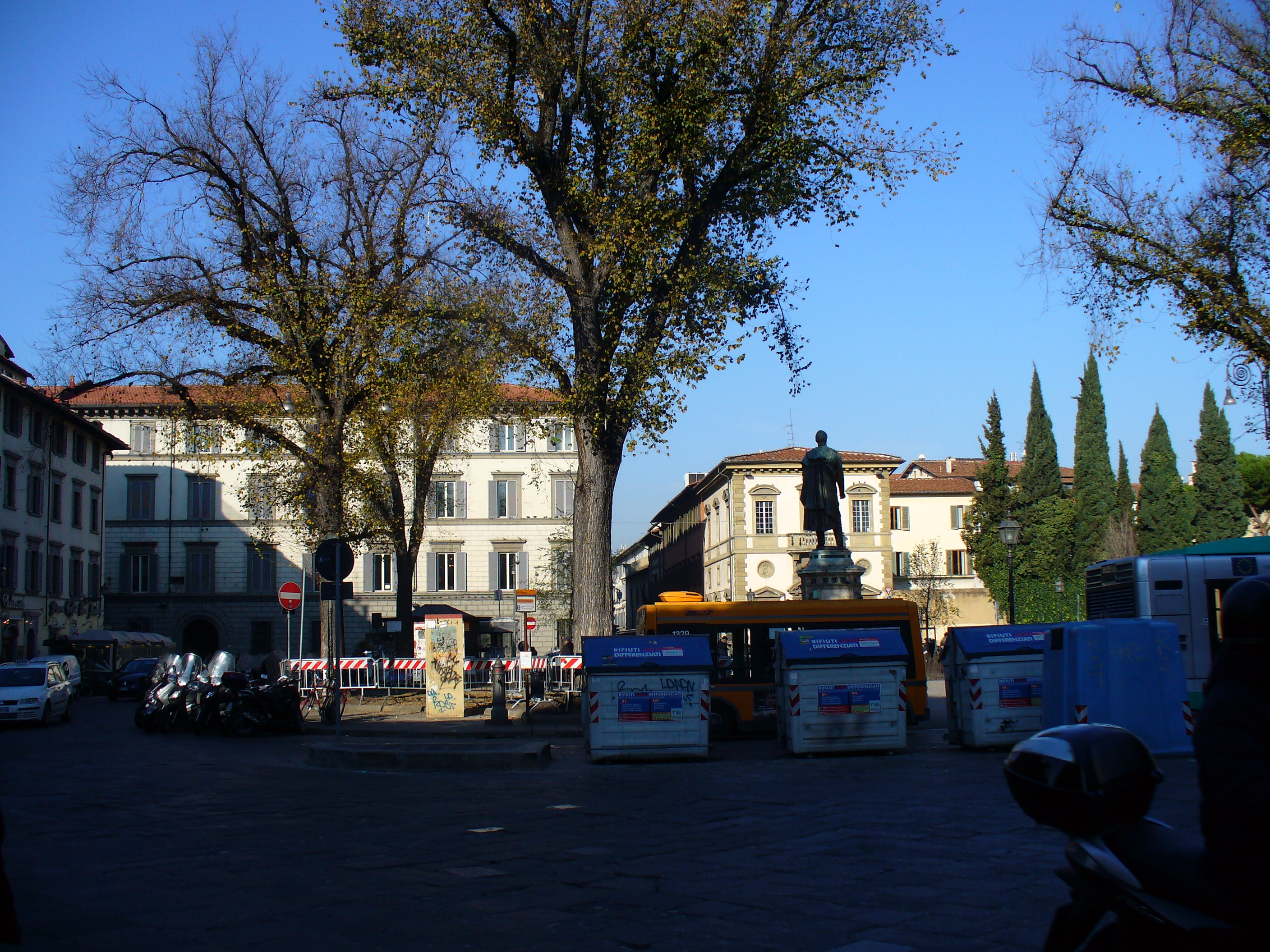 Piazza San Marco (Florence)